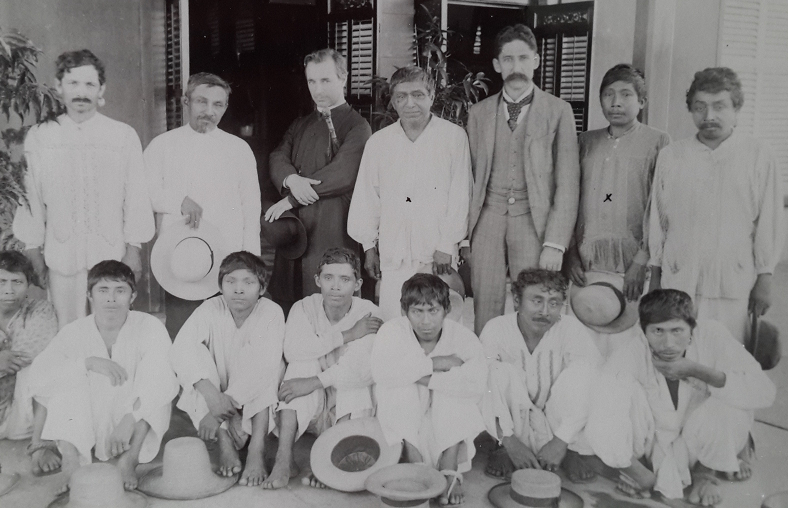 Fr Henry Gillett, S.J., pastor of Catholic church in Corozal, Belize, with merchant Carlos Melhado and Icaiche Maya